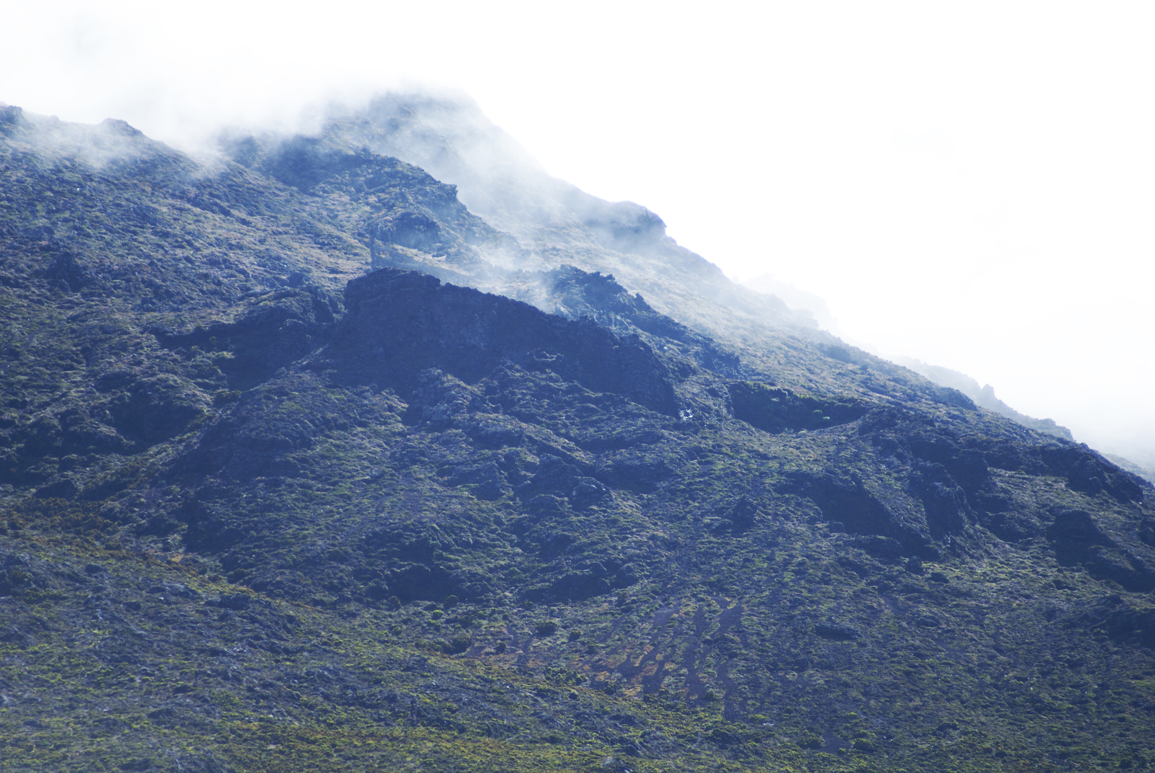 Montanha do Pico, aspectos, próximo ao cume 2 ilha do Pico, Açores, Portugal